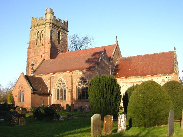 Dunchurch. St Peters Church